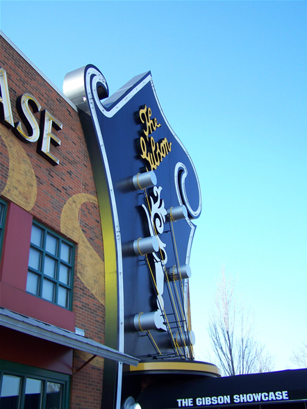 Gibson Showcase, Opry Mills Mall, Nashvile, TN. Taken 12-18-06